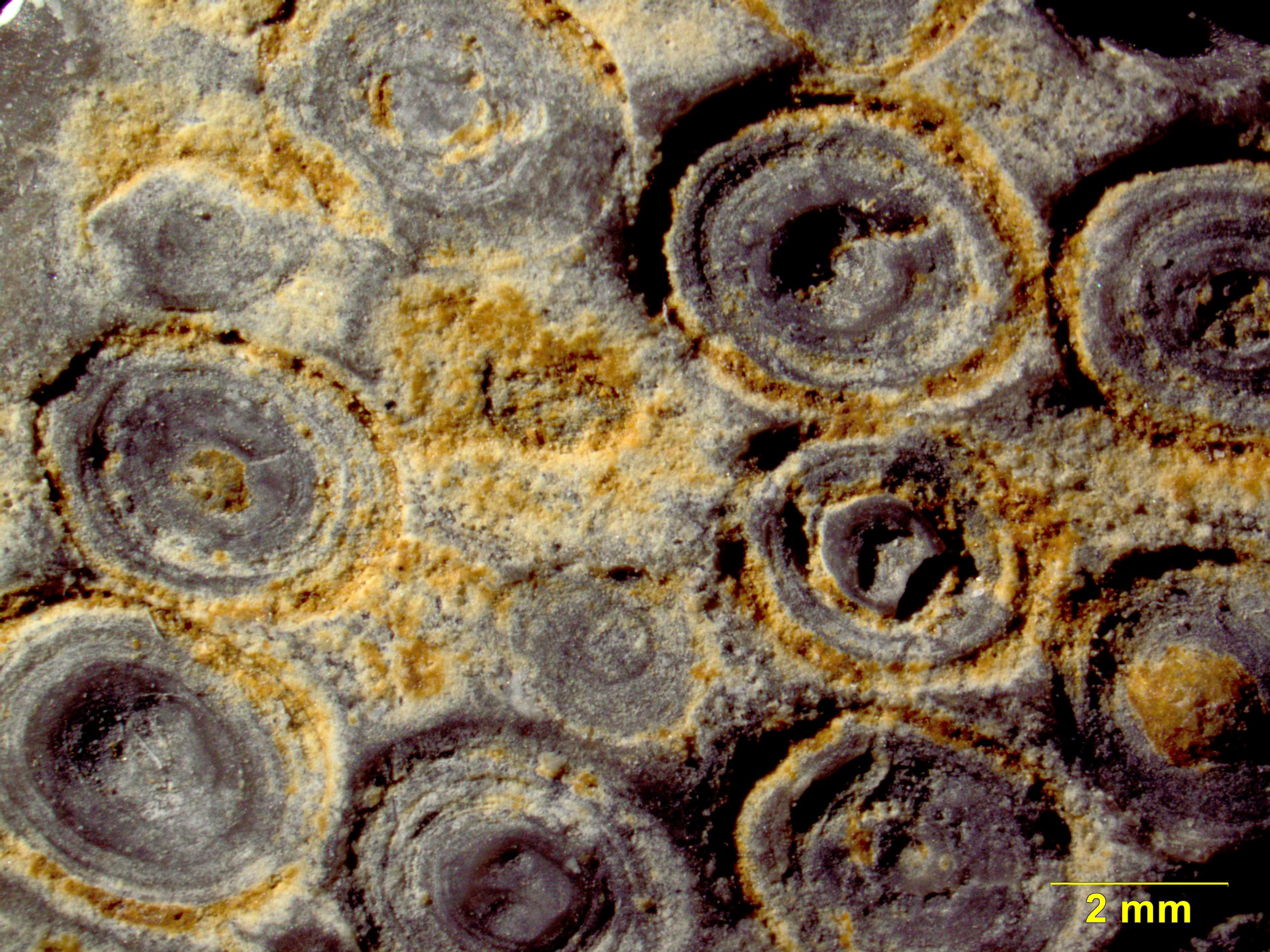 Pisolites from the Conococheague Limestone (Upper Cambrian) of eastern Pennsylvania; naturally eroded surface.